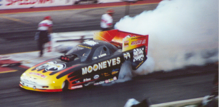 NHRA driver Al Hofmann doing a burnoutAl Hofmann